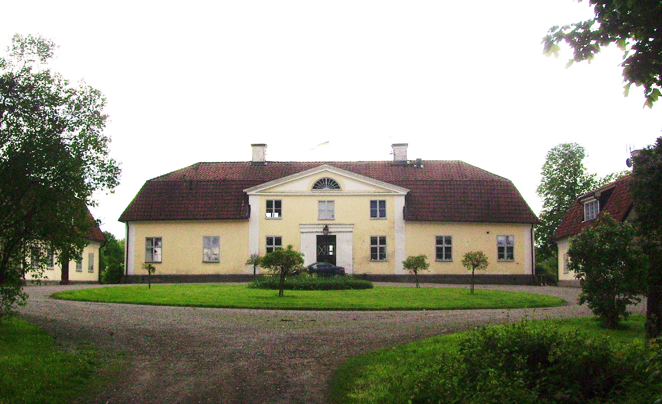 Picture of Stjärnhovs mansion in Södermanland, Sweden